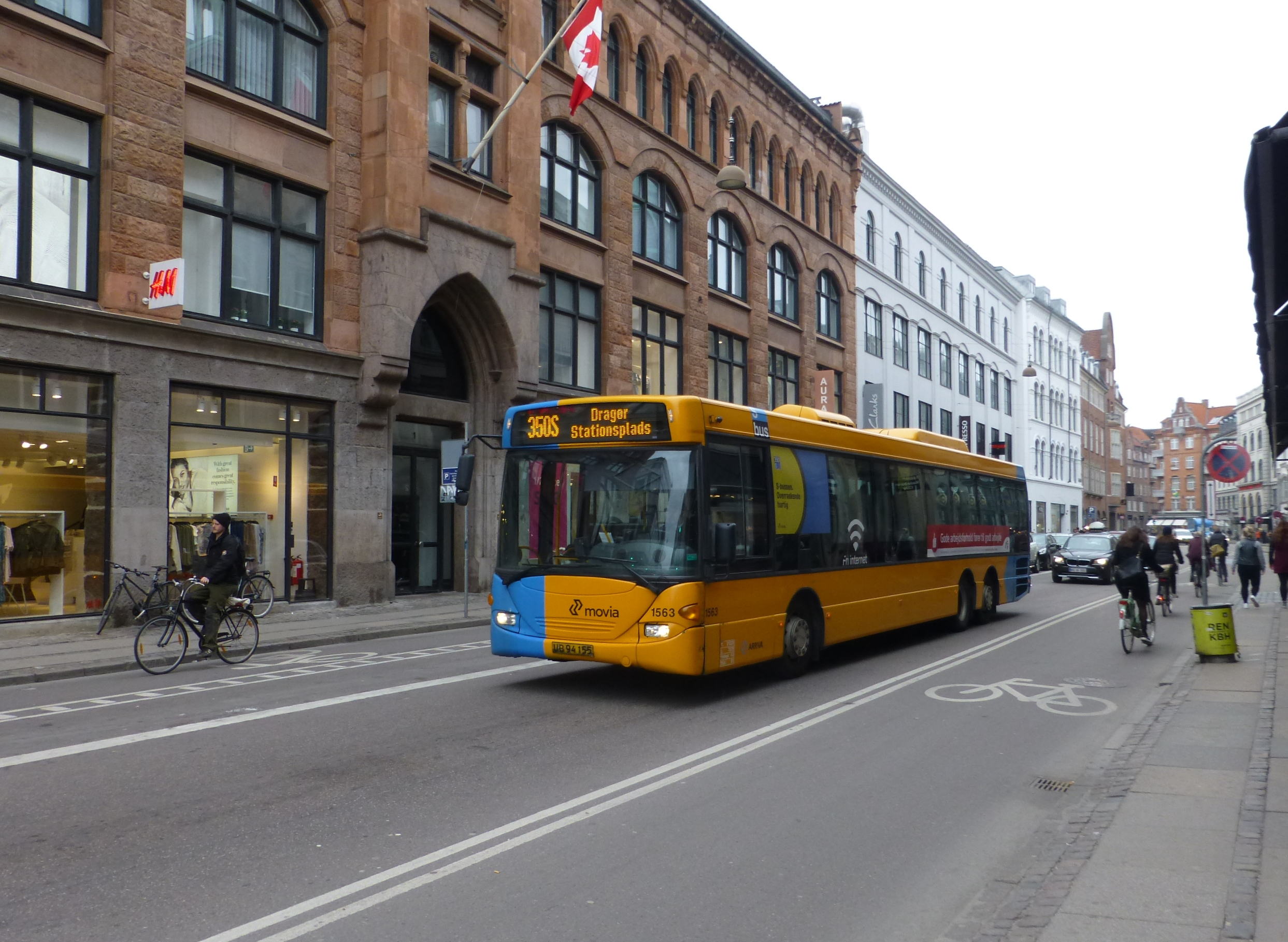 Movia bus line 350S on Kristen Bernikows Gade in Indre By in Copenhagen.